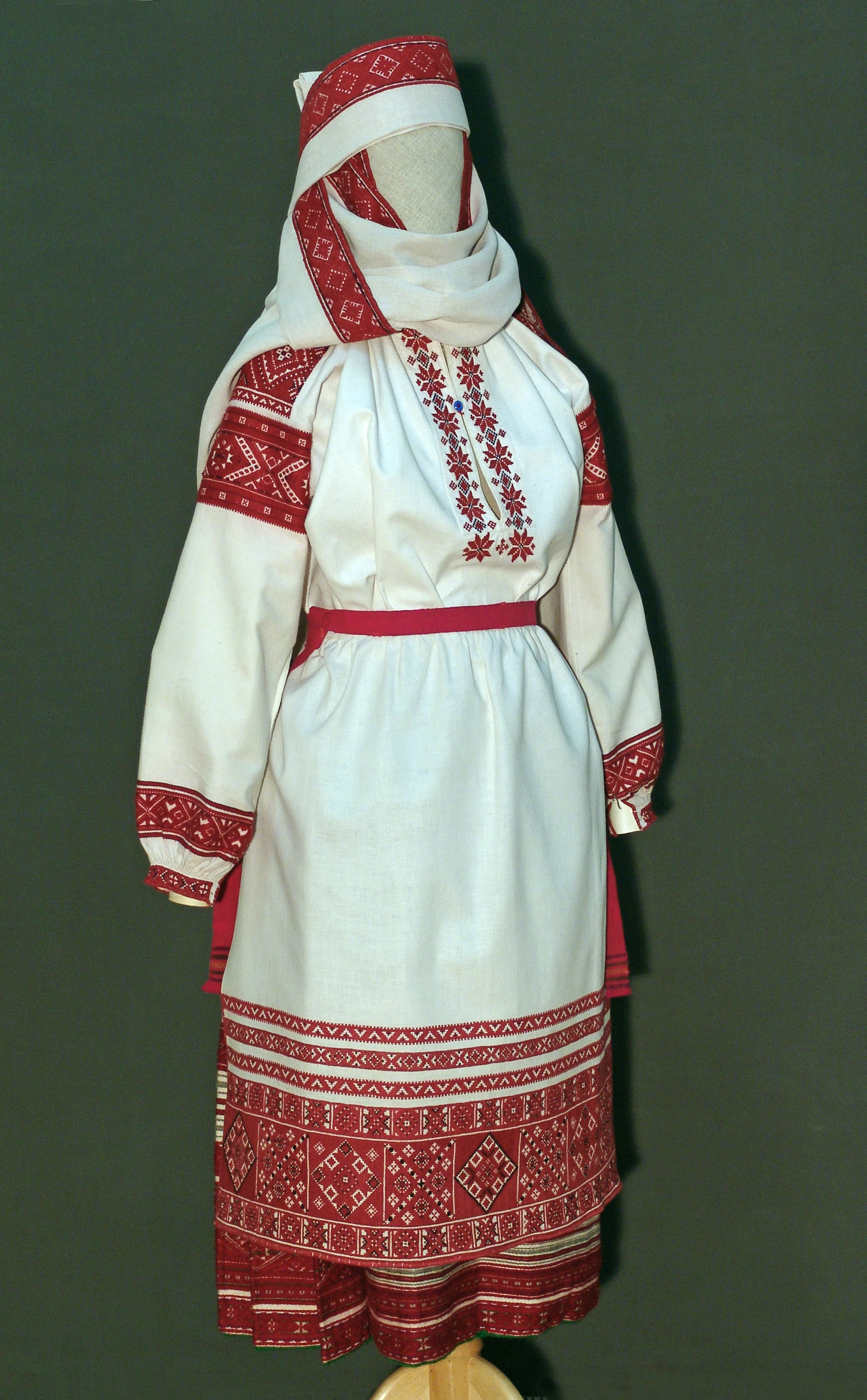 Traditional summer woman clothing of Belarusian peasants (Zburaž village, Malaryta District, Belarus), the end of the XIXth century. Location: Museum of Belarusian Folk Art (Minsk city, Belarus)